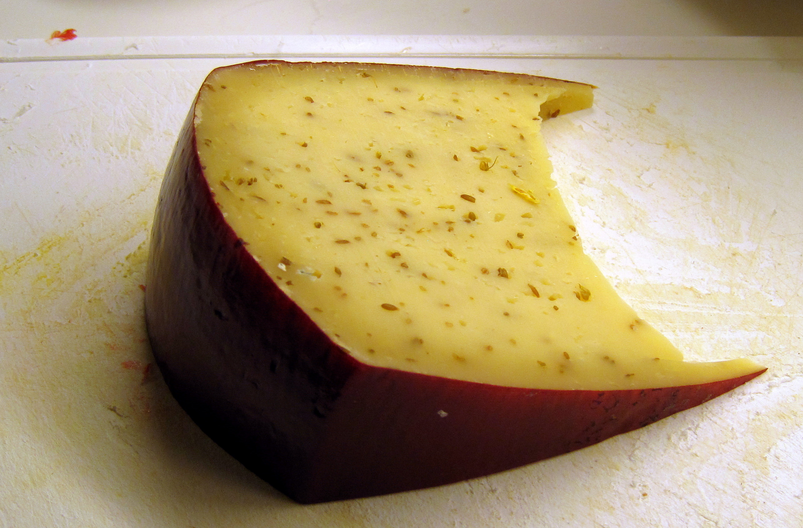 Leidse cheese